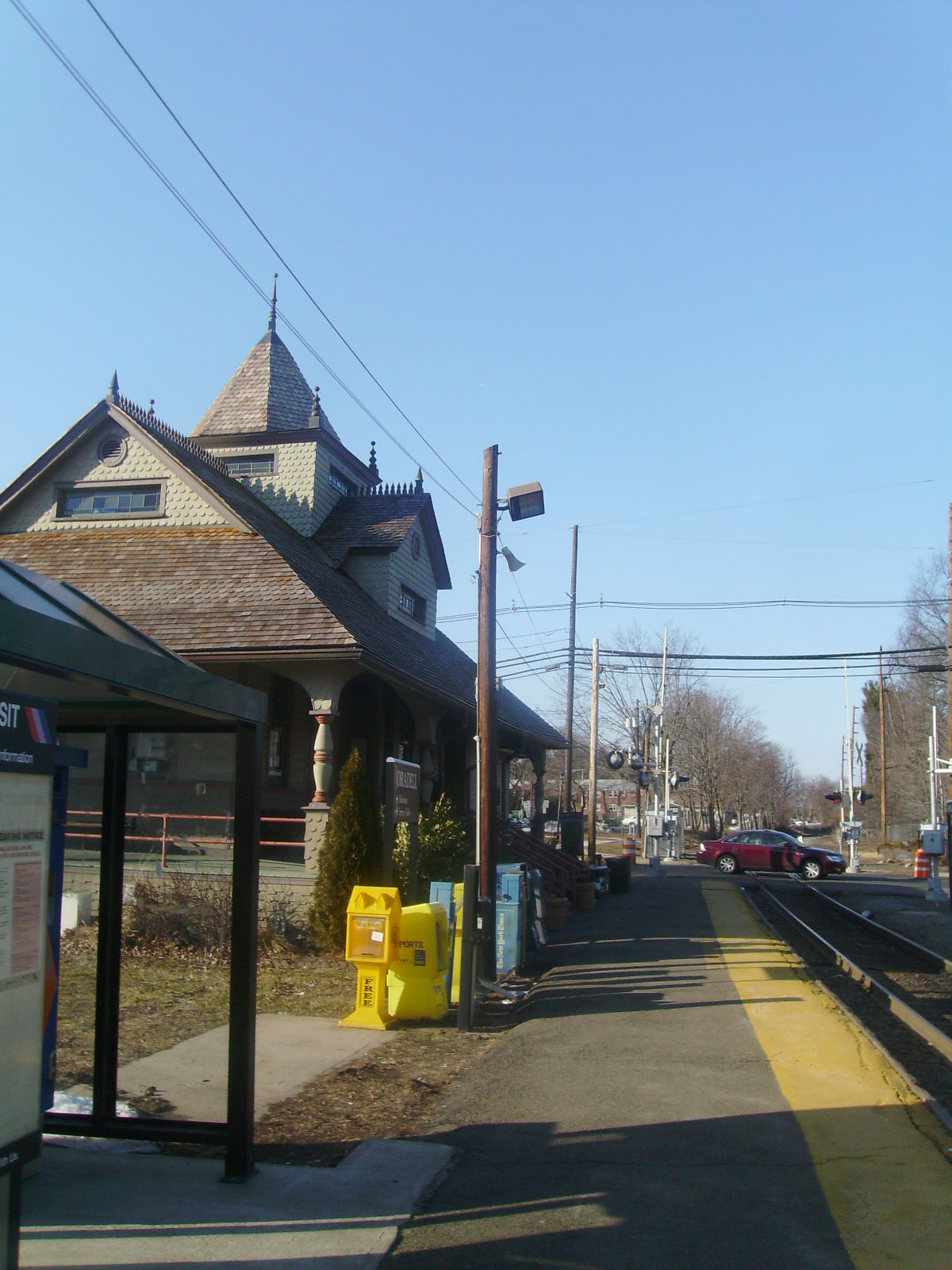 The Oradell New Jersey Transit station in Oradell, New Jersey facing southbound towards Hoboken.